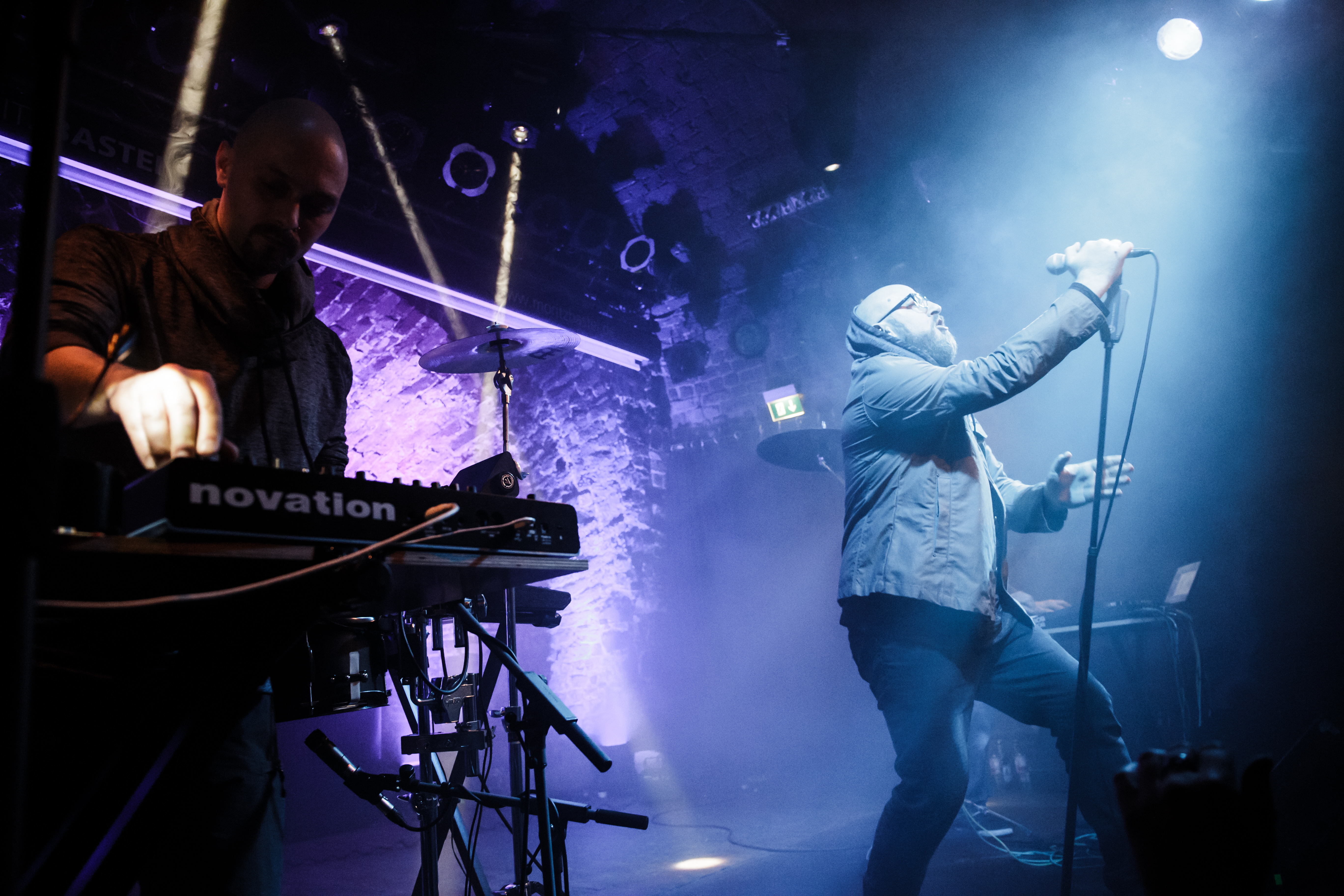 Daniel Myer, front man of the German IDM project Haujobb (right), and Manuel G. Richter (left) Taken during Planet Myer Day 12, January 10th, 2014, Moritzbastei, Leipzig, Germany